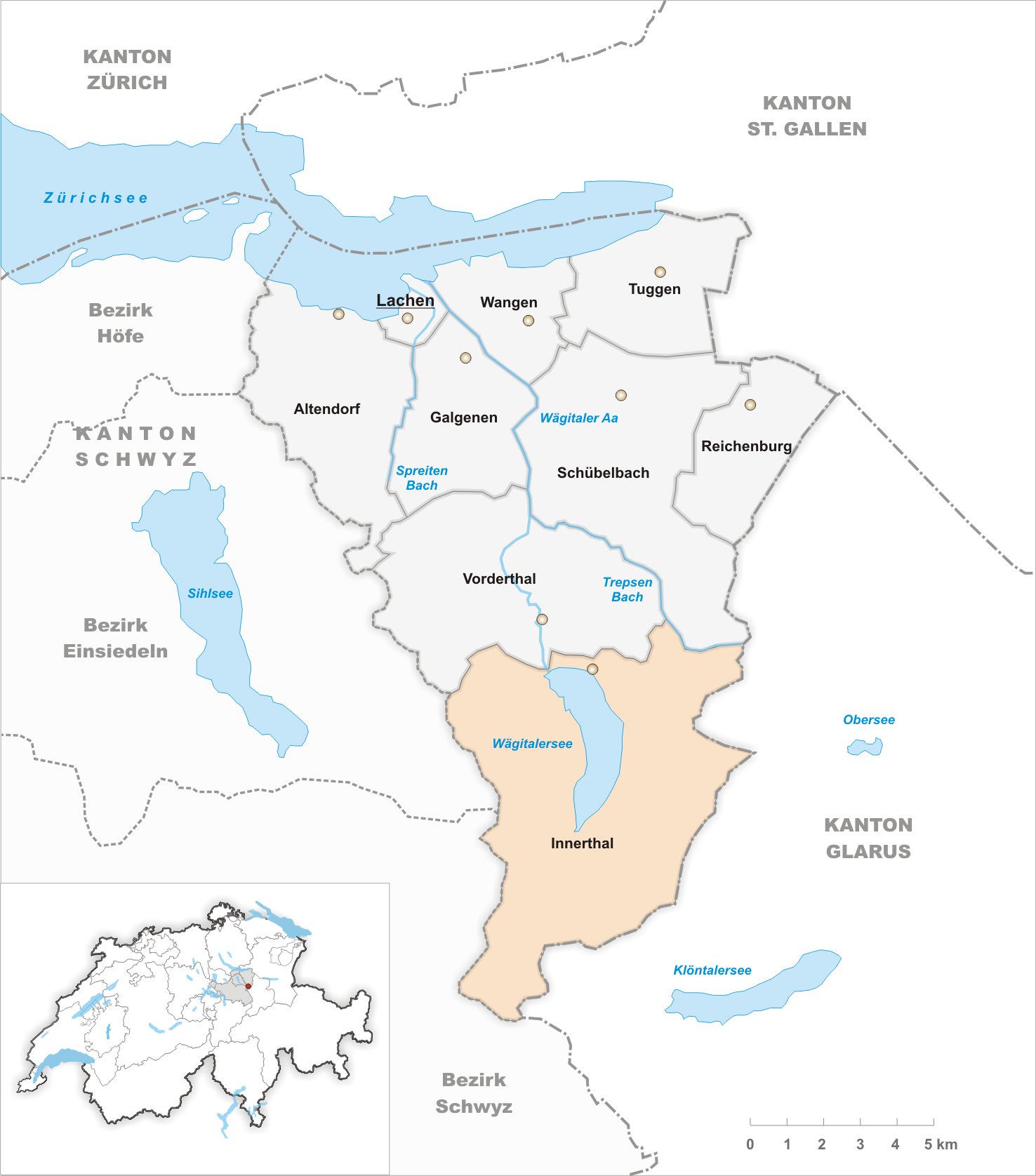 Municipality Innerthal